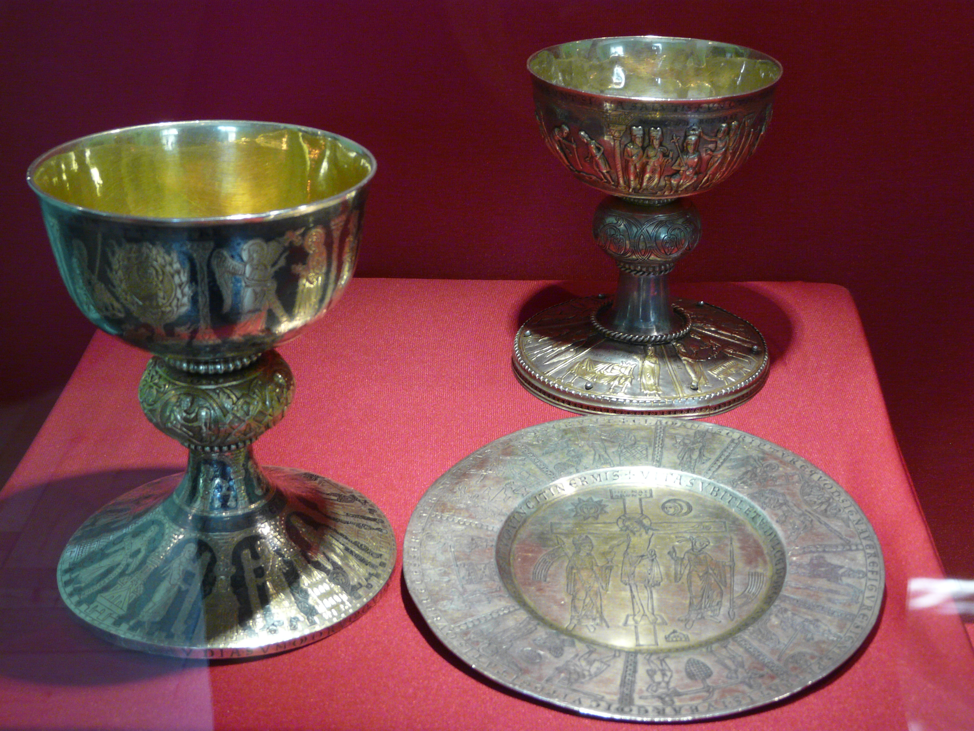 Museum of Archdiocese in Gniezno